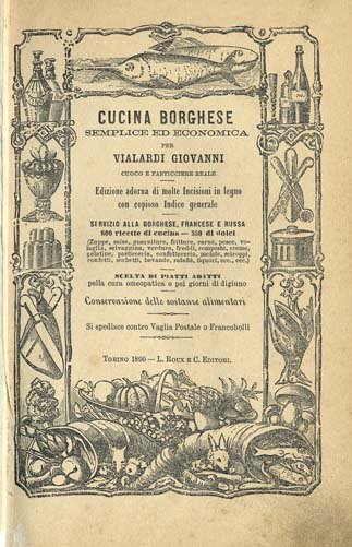 Cover of cookbook published by chef Giovanni Vialardi in the 19th century. Image is public domain as the creator has passed over 100 years ago.